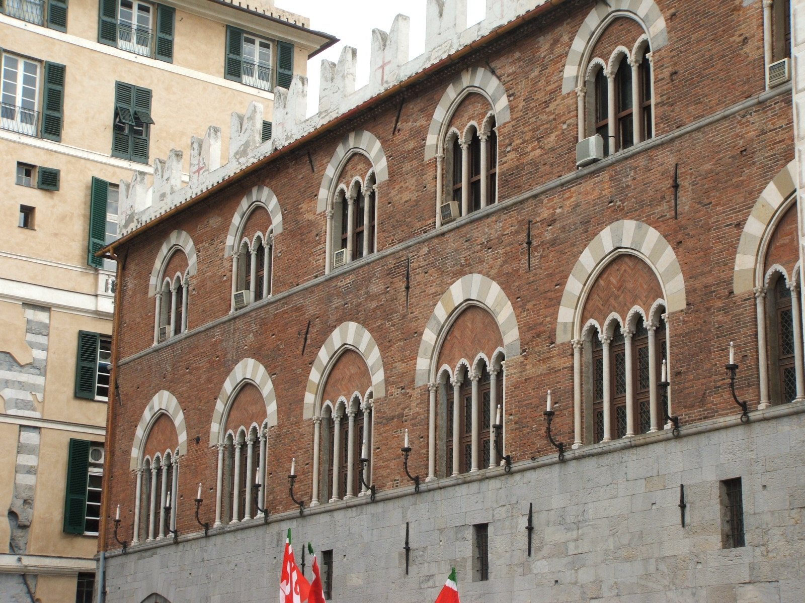 Genova, Palazzo San Giorgio (Genova)